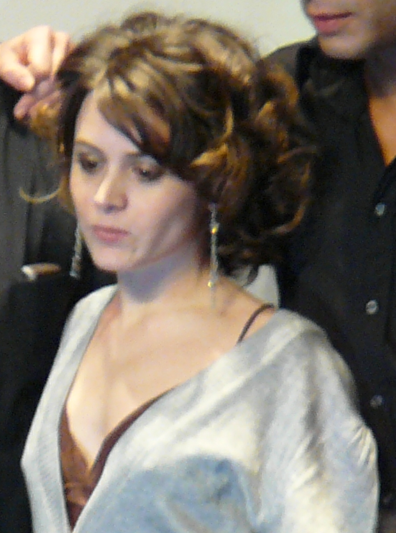 Maud Forget. Photo shot in Gerardmer during Fantastic'arts festival.